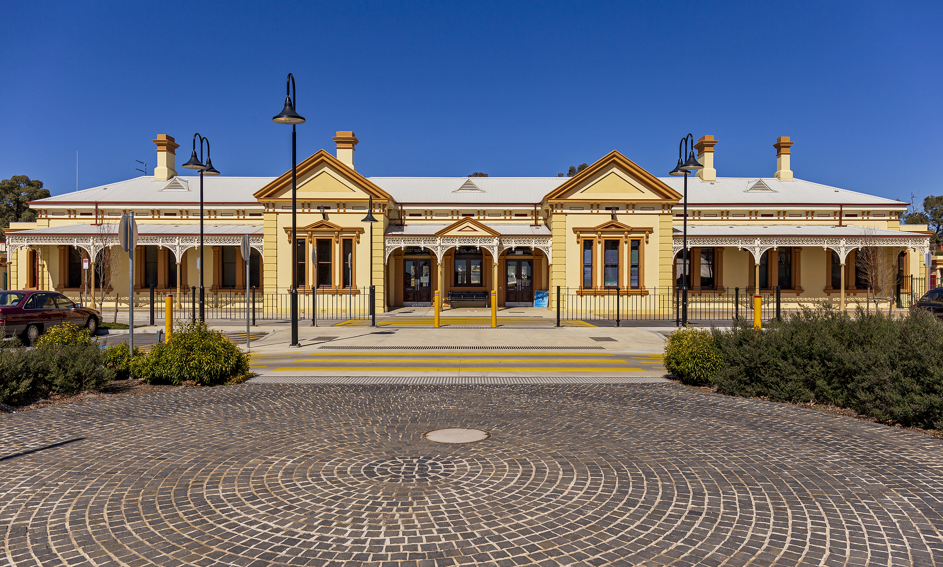 Wagga Wagga Railway Station viewed from Station Place